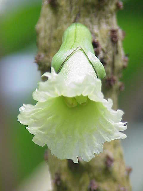 Species: Amphitecna macrophylla Family: Bignoniaceae Image No. 6